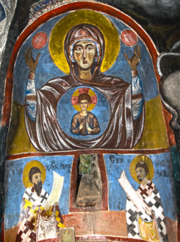 Ascension_of_Jesus_Church_in_Drenovo_Fresco.